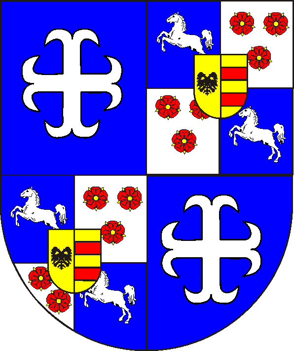 coats of arms of Aldenburg-Bentinck 1,4: Bentinck; 2,3: Aldenburg